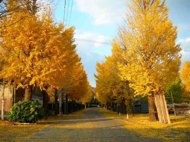 Ginkgo trees of Jingu-Uji-kosakusho in Ise city. Mie prefecture, Japan.